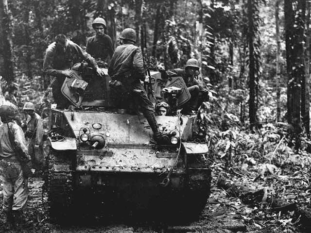 After a battle between the Marines and Japanese, a tank moves in to see the results on Cape Gloucester. In this same hollow a very bloody battle raged for four days. The tank is Light Tank M5/M5A1 aka Stuart.